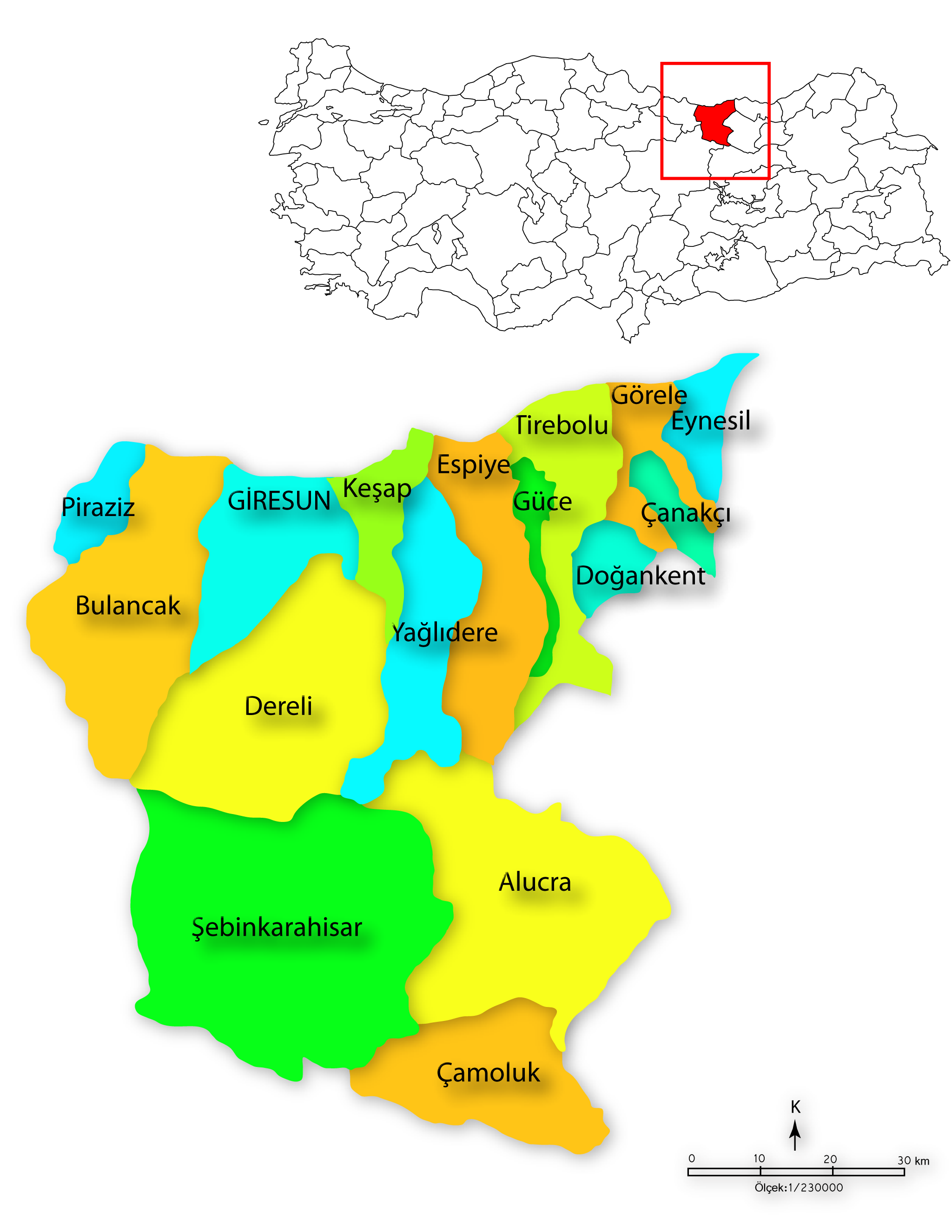 Map of regional administrative divisions of Giresun